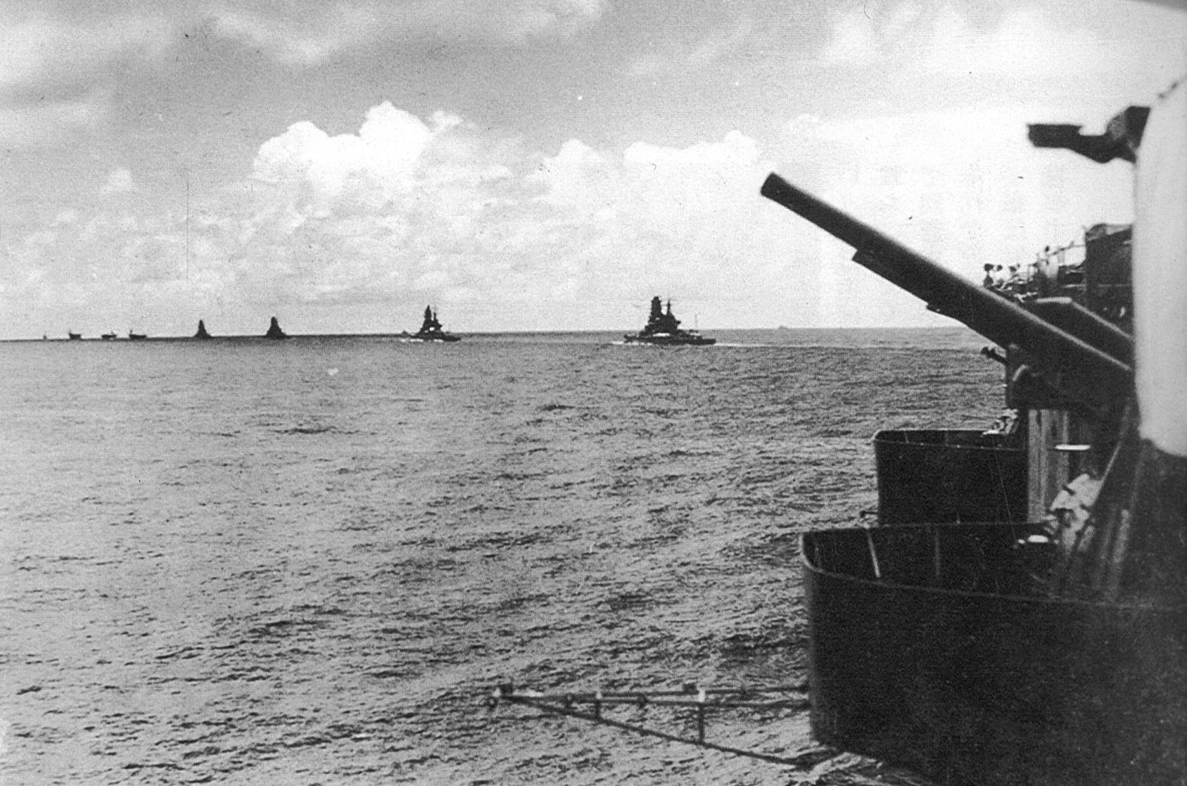 The Japanese strike force advancing to the Indian Ocean. Ships shown from left to right are: Akagi, Sōryū, Hiryū, Hiei, Kirishima, Haruna, and Kongō. Taken from Zuikaku, 30 March 1942.